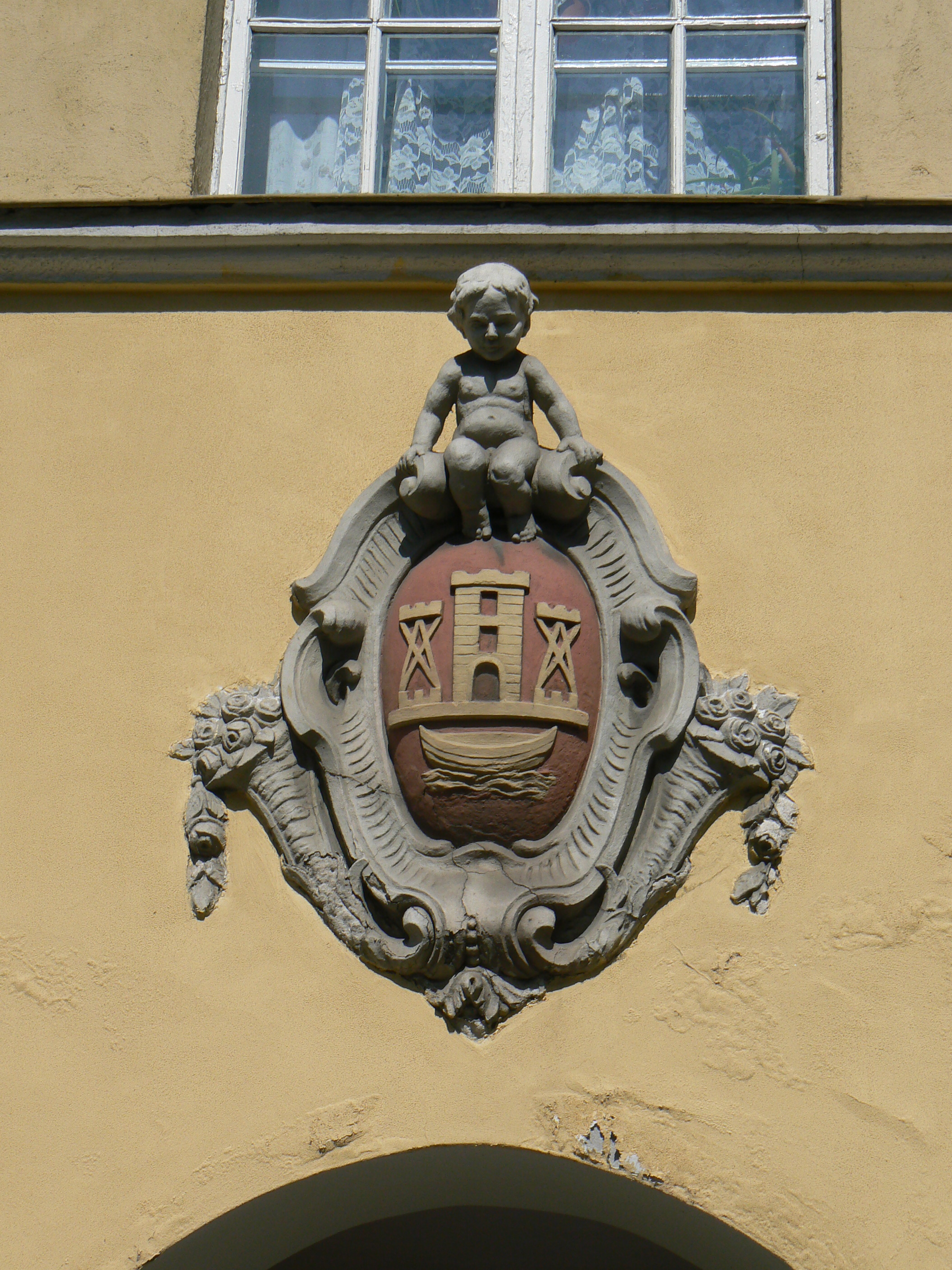 Facade of Tiltų 1 Klaipėda